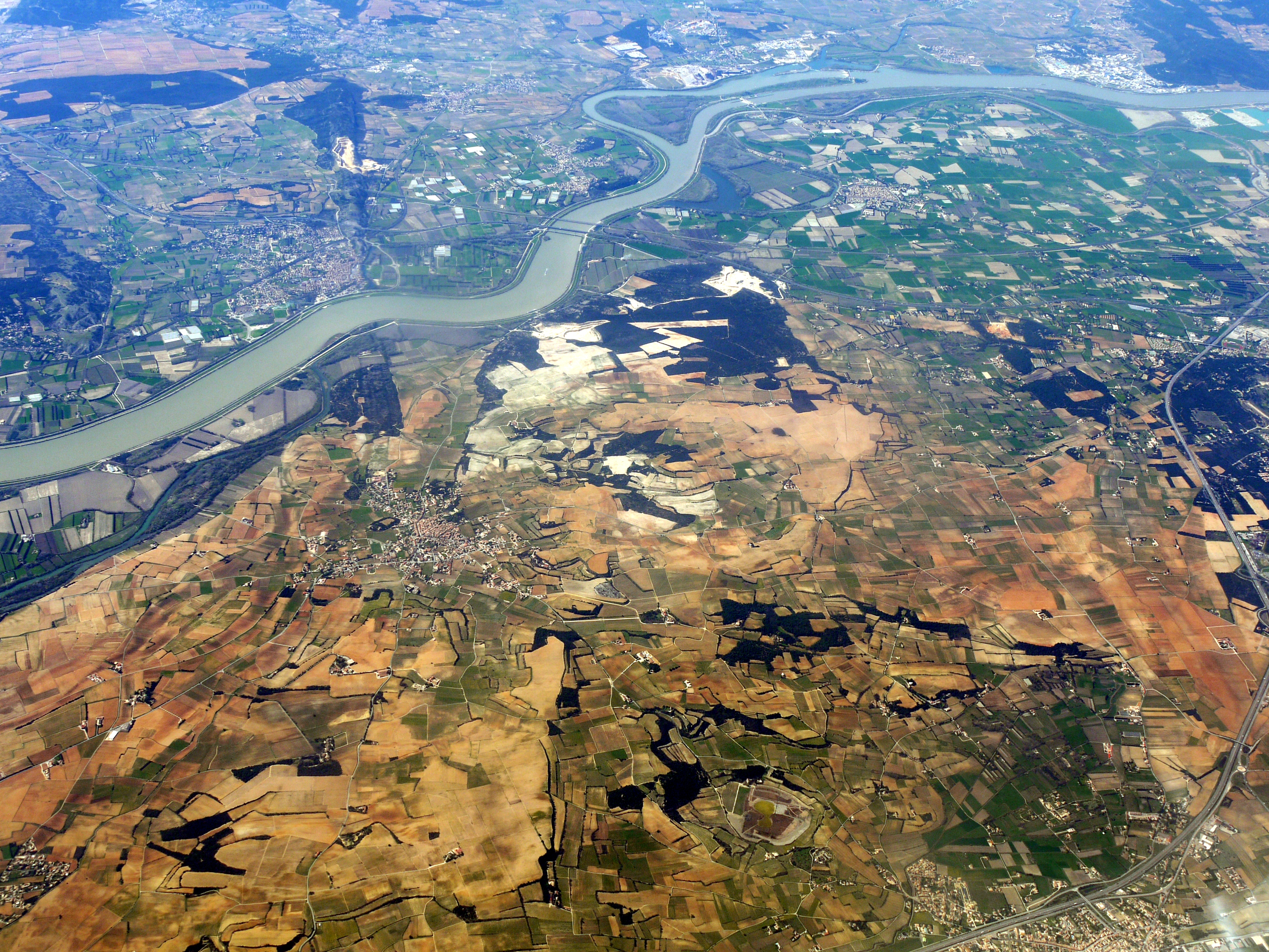 Châteauneuf-du-pape and Courthézon, photograph taken from the sky, on the fly line between Marseille and Stockholm.